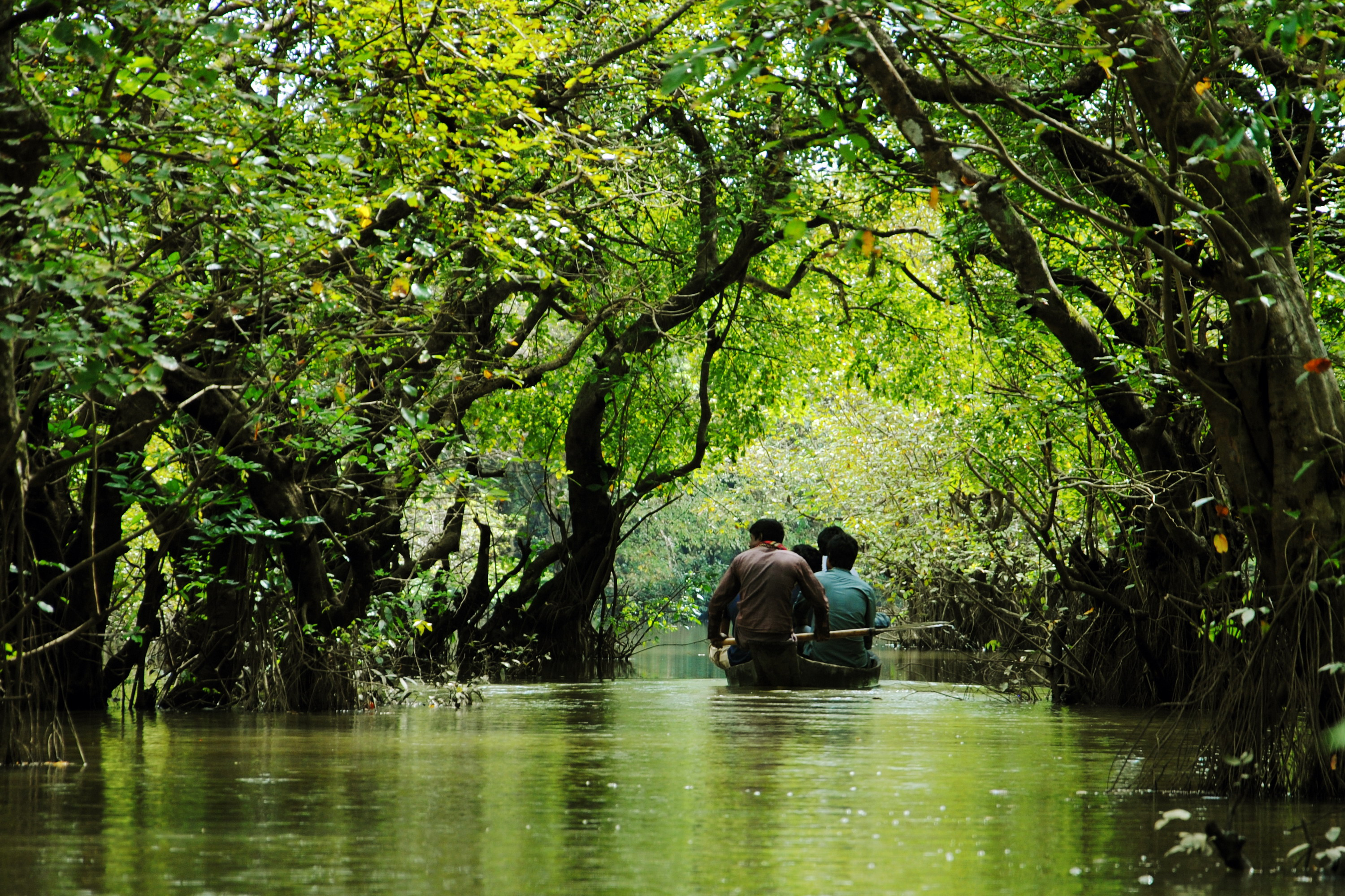 Ratargul Swamp Forest is a freshwater swamp forest located in Gowainghat, Sylhet, Bangladesh. It is the only swamp forest located in Bangladesh and one of the few freshwater swamp forest in the world. The forest is naturally conserved under the Department of Forestry, Govt. of Bangladesh.